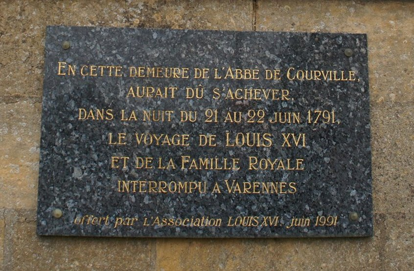 Plaque indicating the house in Thonnelle (Meuse) where Louis XVI of France was to stay after his escape from Paris in 1791